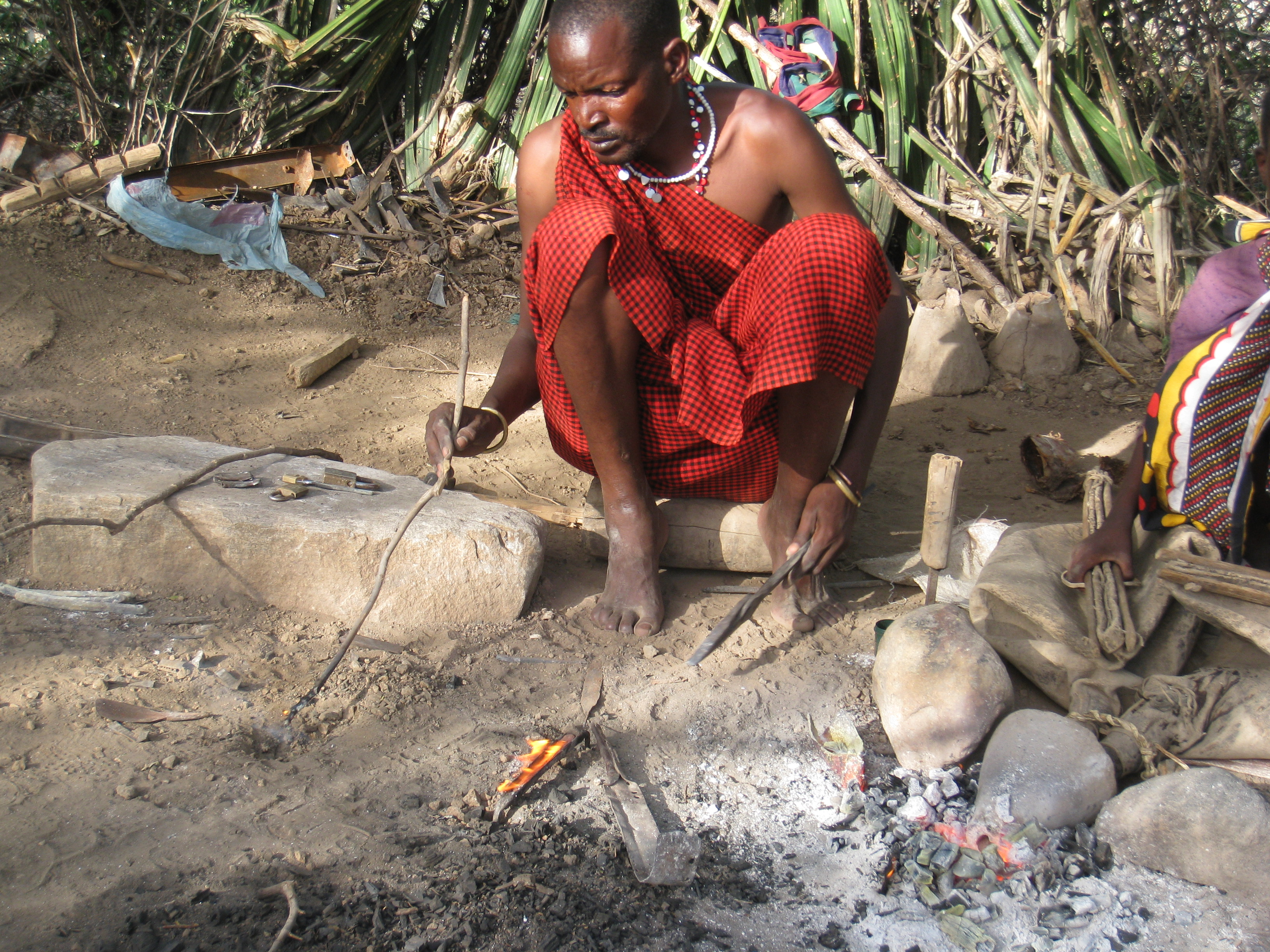 Datoga (Alternative names - Datooga, Tatooga, Taturu, Mang'ati, Wadatoga) man, melting down some old padlocks to make his jewellery